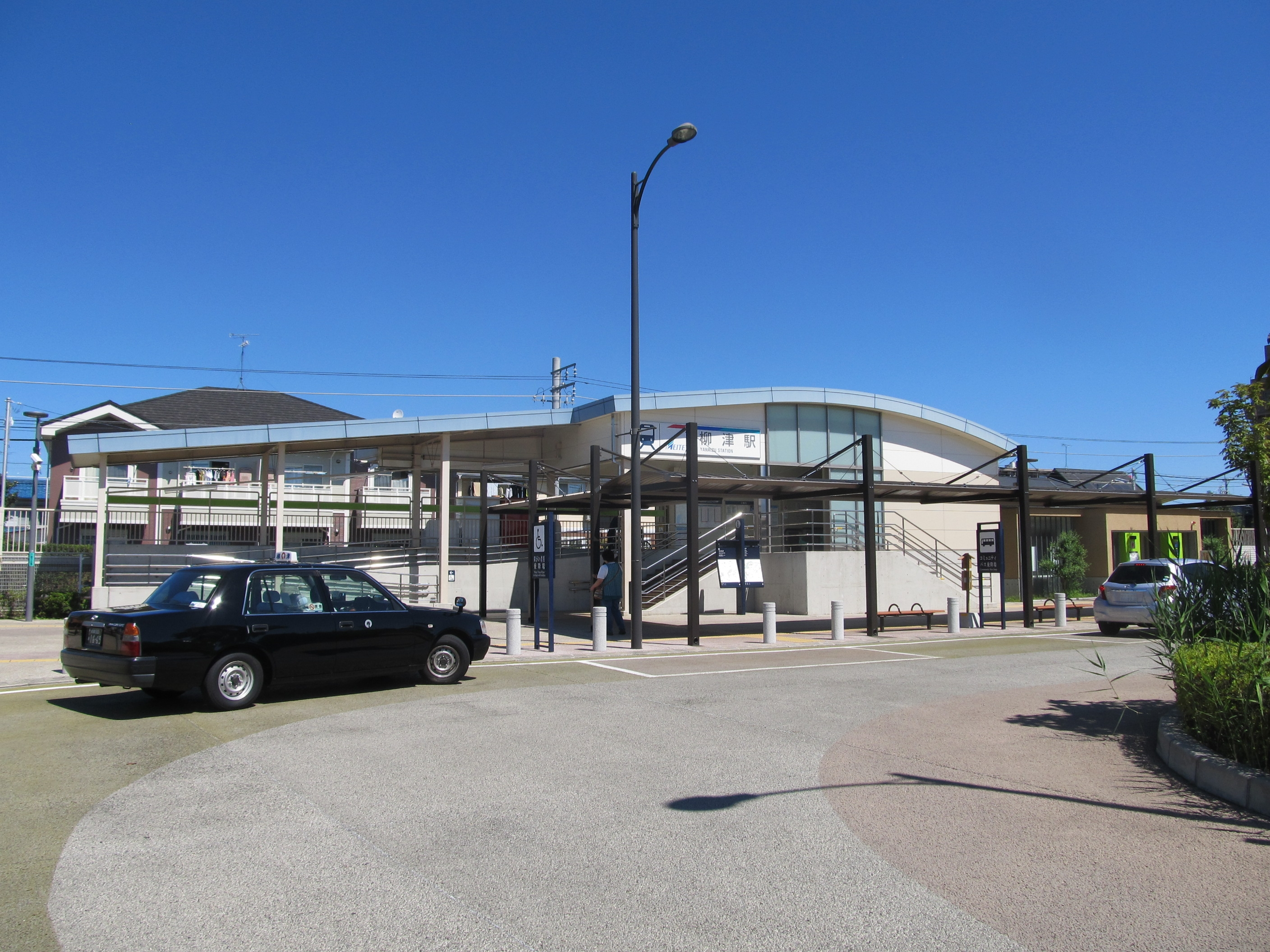 Nagoya Railroad Takehana Line Yanaizu Station Plaza